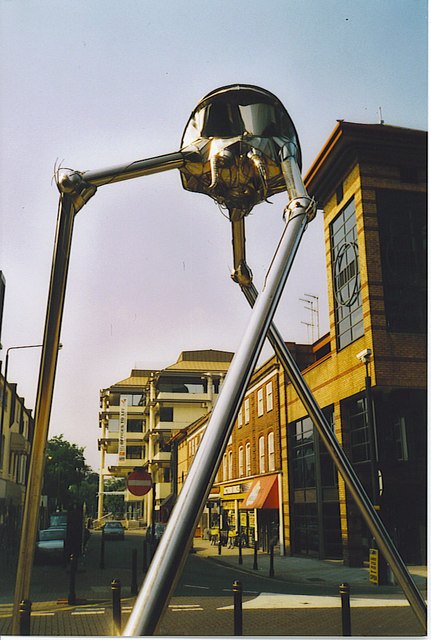 "The Martian", Woking. The Martians landed on Horsell Common, outside Woking in HG Wells'book, "The War of the Worlds". This statue of a three-legged Martian craft is in Woking's town centre shopping precinct, outside the HG Wells Centre.